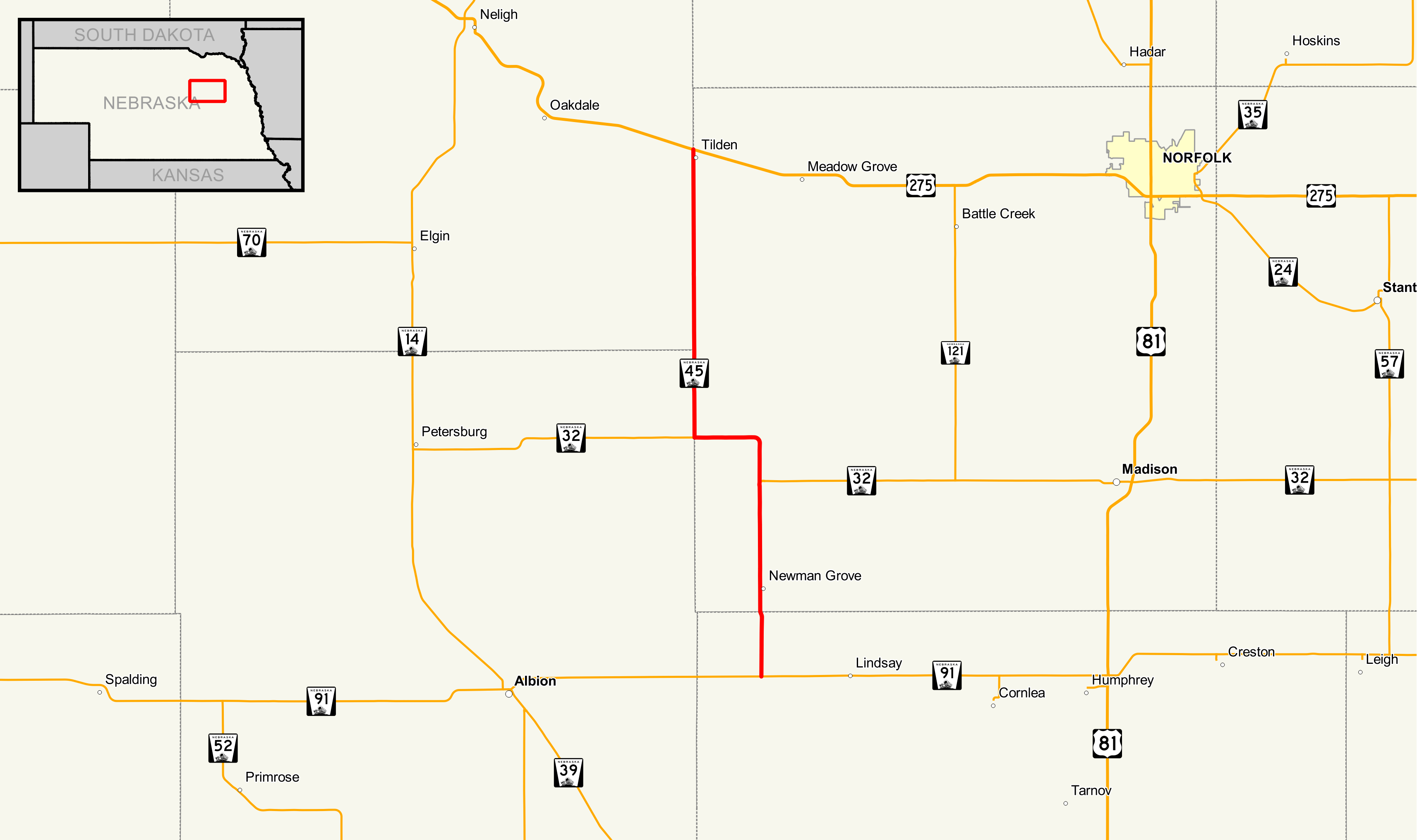 Map of Nebraska Highway 45 Data Sources: Nebraska Highways - - Dec 2016 Nebraska County Boundaries - - Dec 2016 Nebraska City Boundaries - - Dec 2016 This PNG graphic was created with QGIS